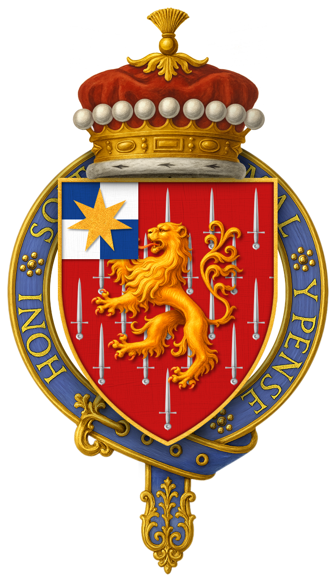 Coat of Arms of William Slim, 1st Viscount Slim, KG, GCB, GCMG, GCVO, GBE, DSO, MC, KStJ